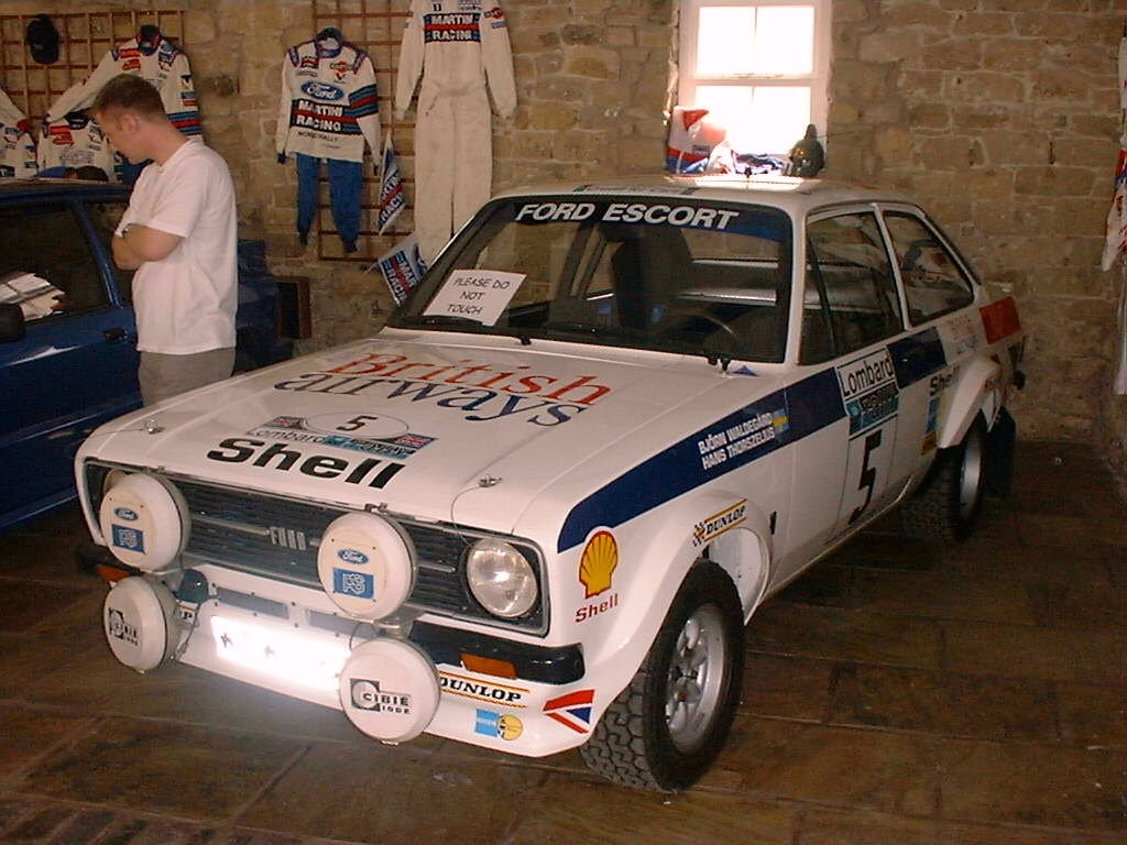 Björn Waldegård's British Airways sponsored Ford Escort RS1800, winner of the 1977 Lombard RAC Rally pictured at M-Sport in 2007